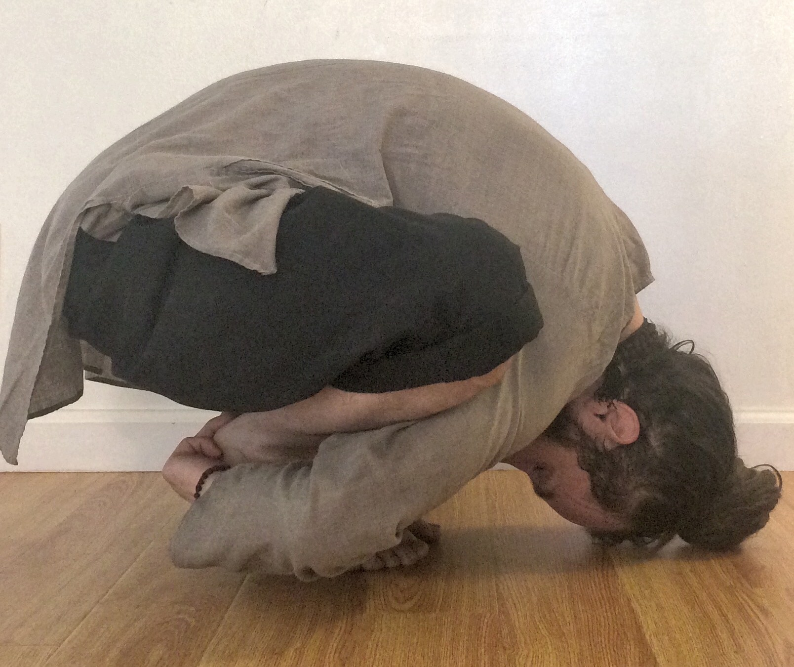 Yoga asana 'mālāsana II' viewed from the side.